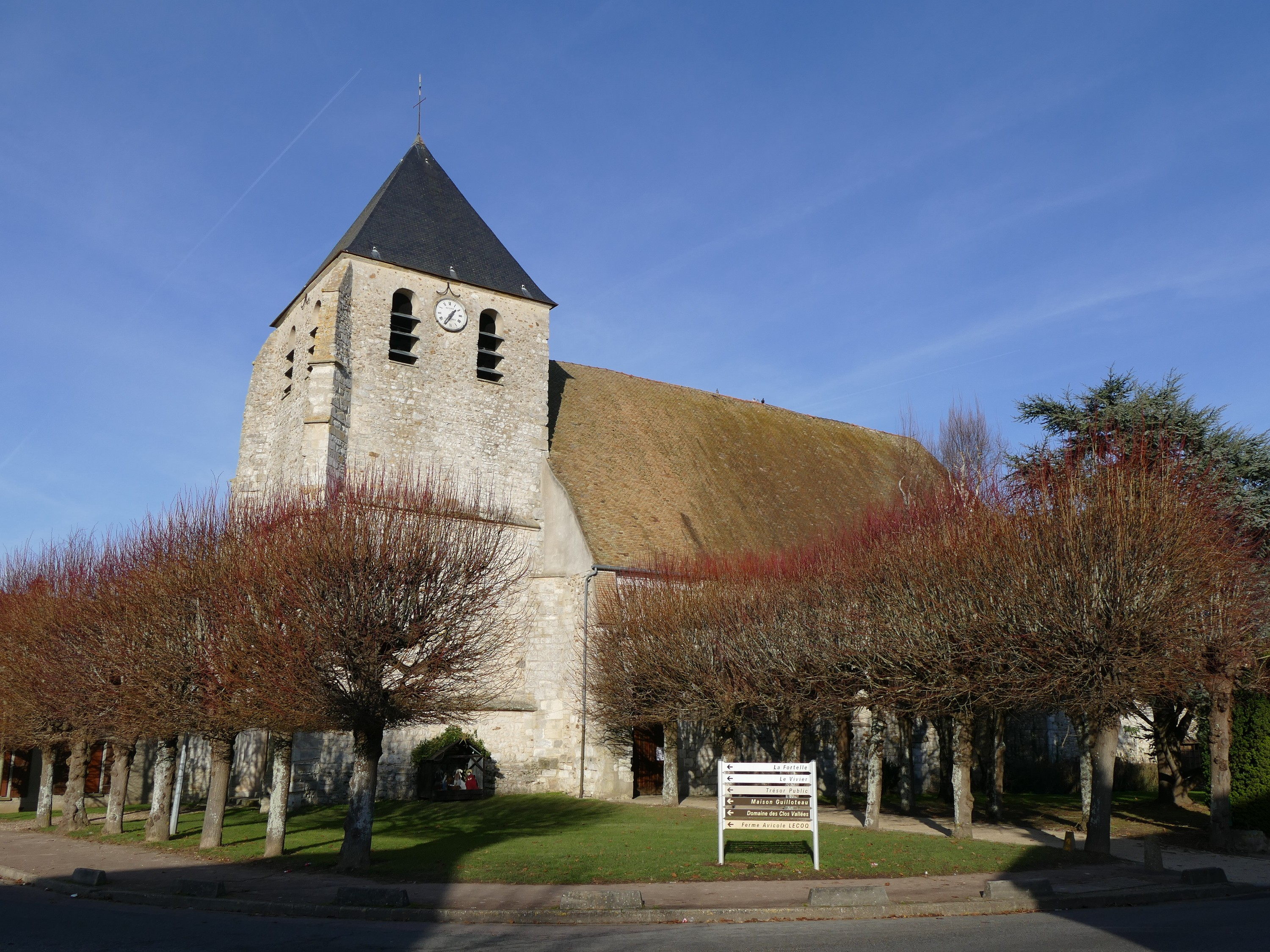 Saint-Peter's church in Longnes (Yvelines, Île-de-France, France).